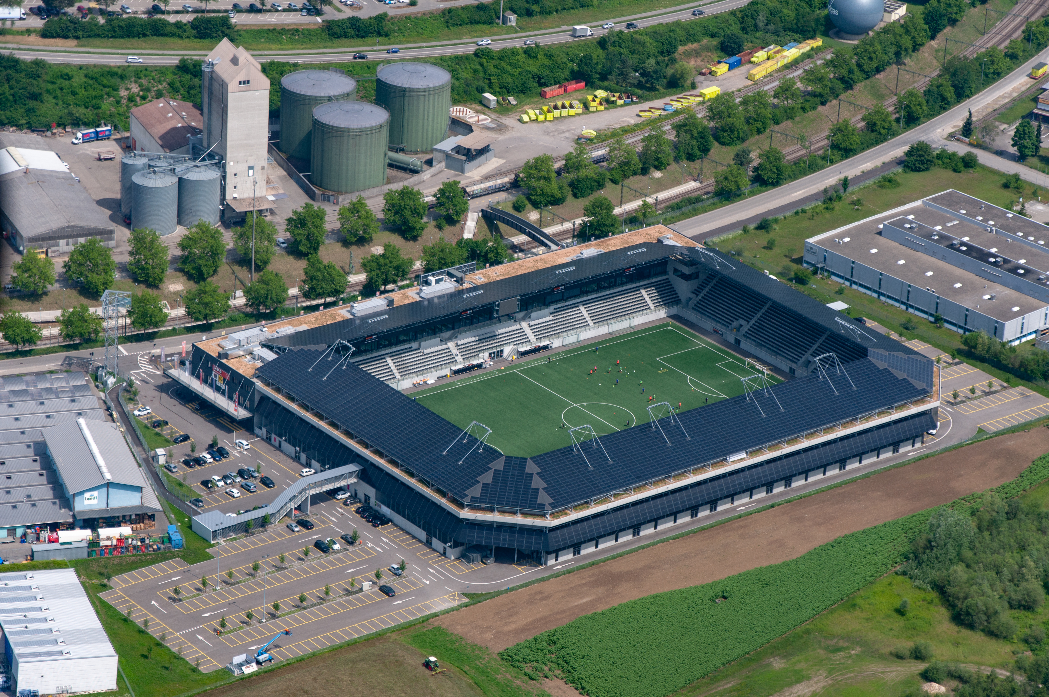 Switzerland, Canton of Schaffhausen, aerial view of Lipo-Park in Herblingen